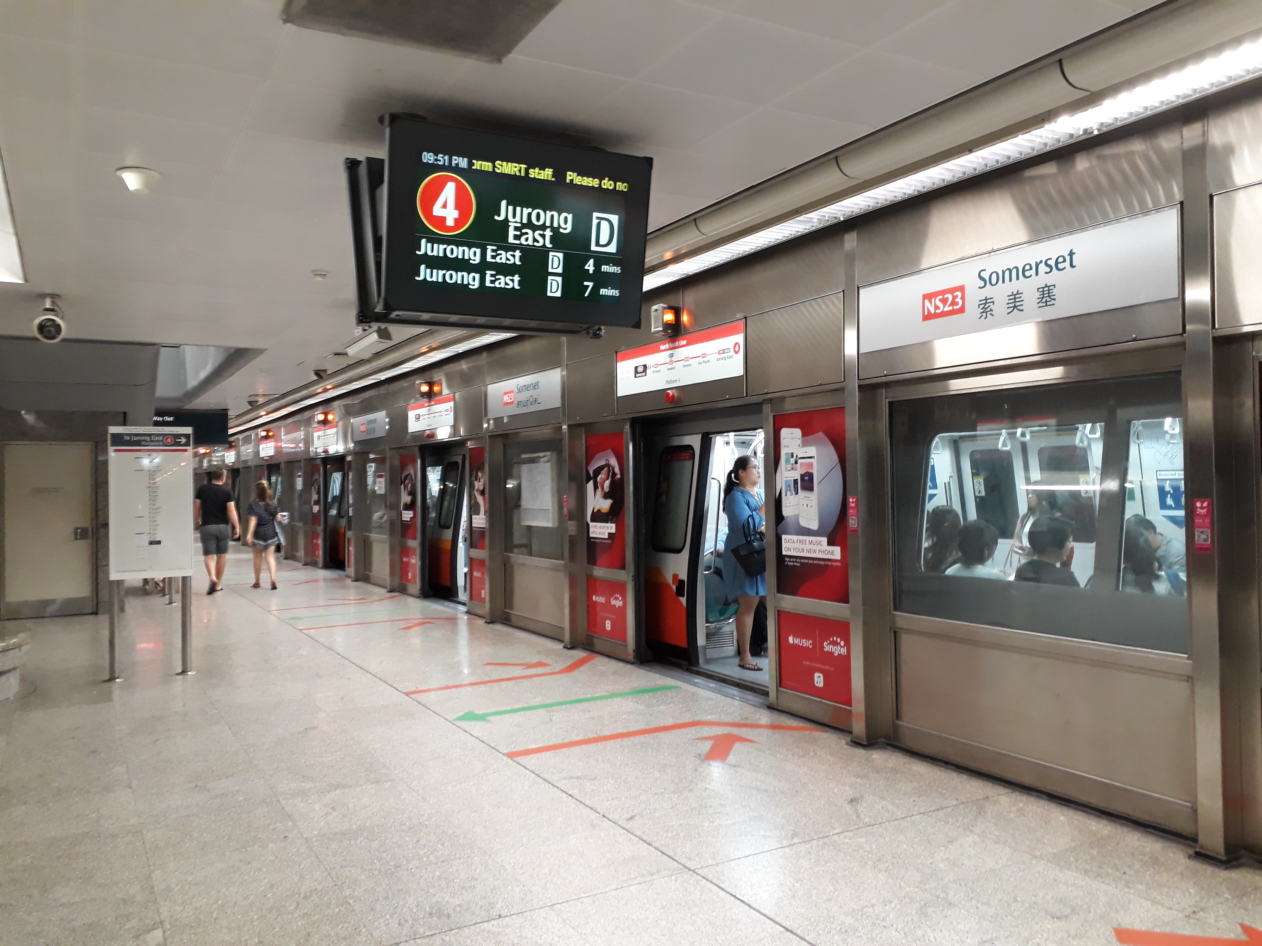 Platform A of Somerset MRT station.